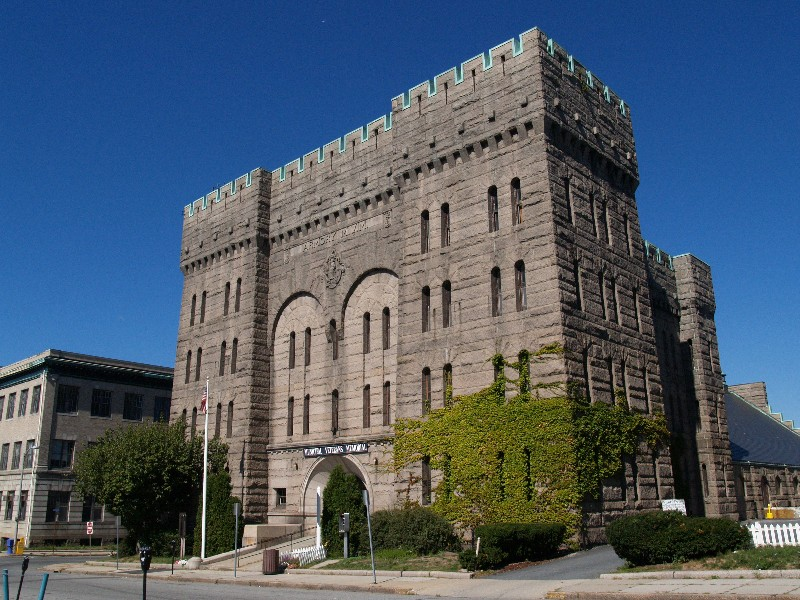 former Armory Building (built 1897), Bank Street, Fall River, Massachusetts